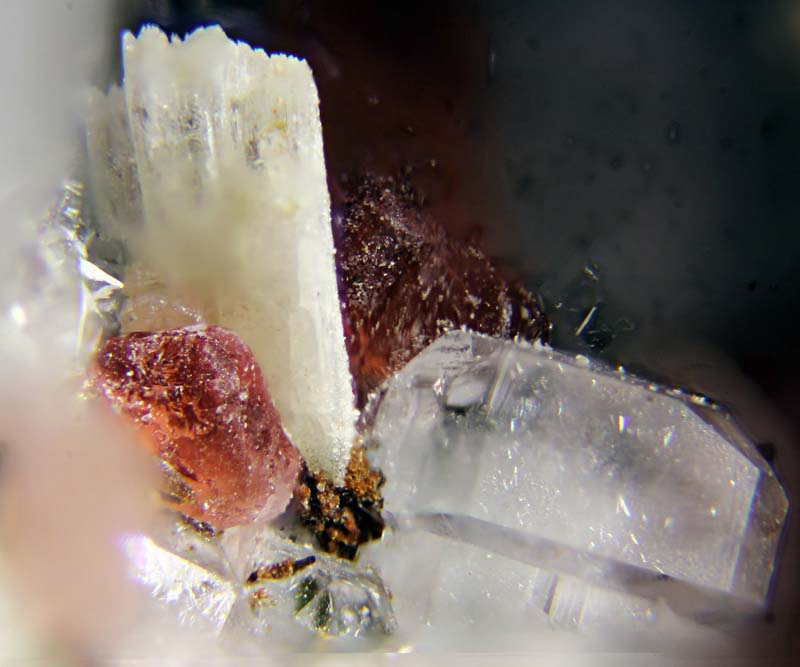 White sharp crystals of this rare mineral, Iraqite-(La), associated to pink villiaumite in a contrasting matrix. Very nice under the microscope for the contrast of colors. From: Aris Quarry, Windhoek, Khomas Region, Namibia.